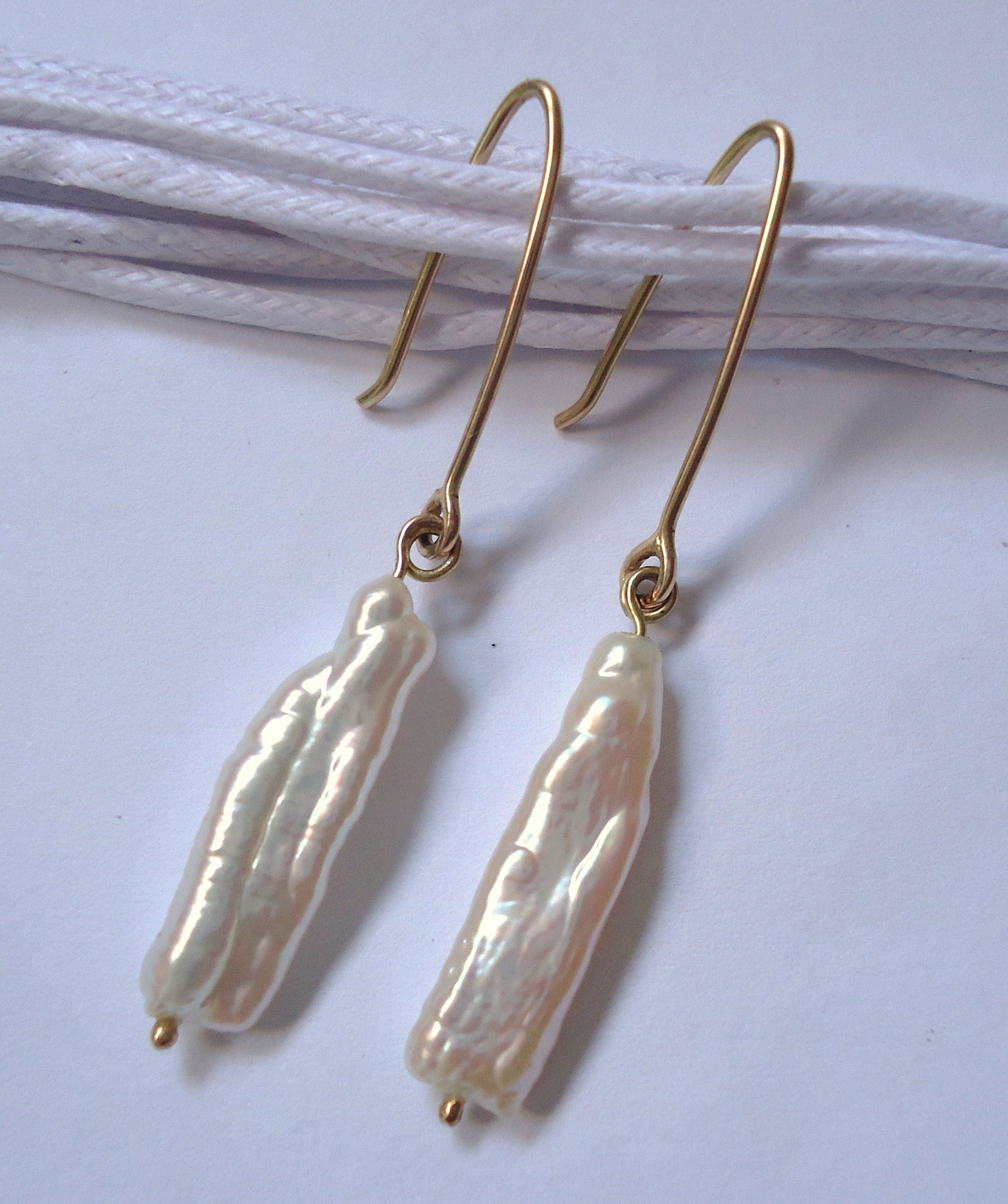 Pair of earrings. Gold and keshi pearls. Mauro Cateb, Brazilian jeweler and silversmith.